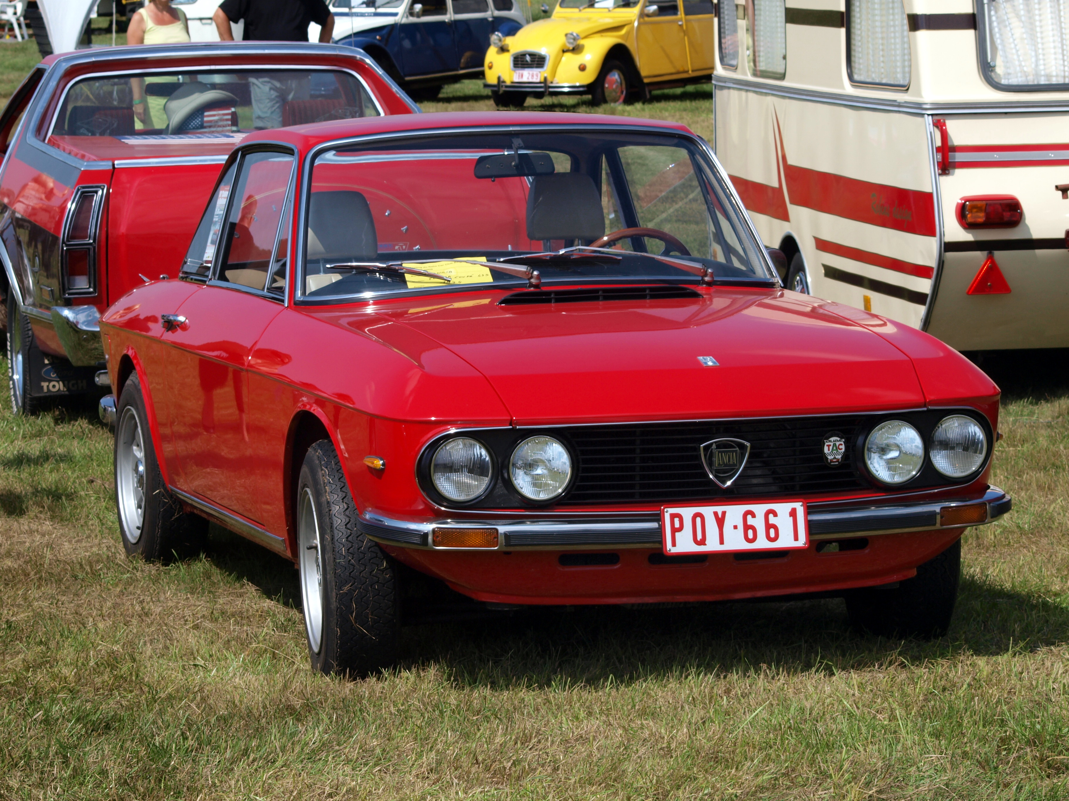 Photographed at The International Oldtimer Fly and Drive In 2010, Schaffen-Diest, Belgium.